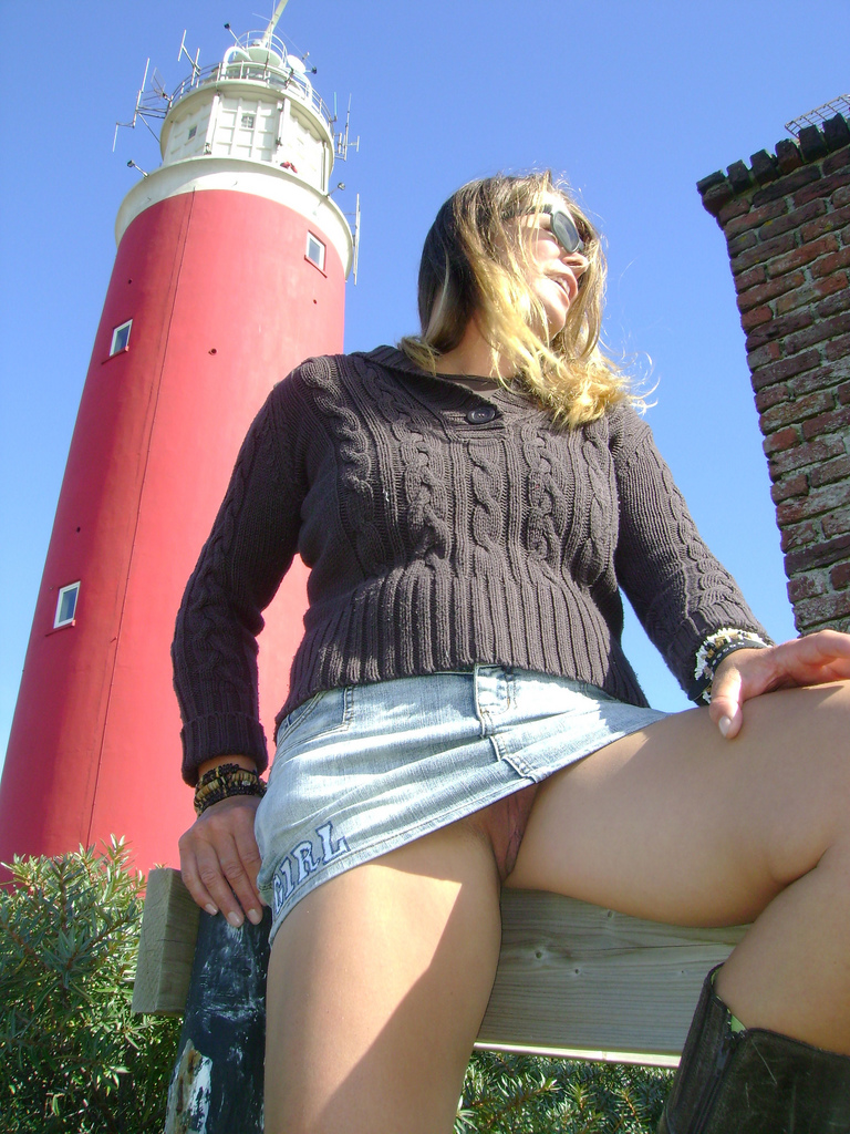 At the lighthouse